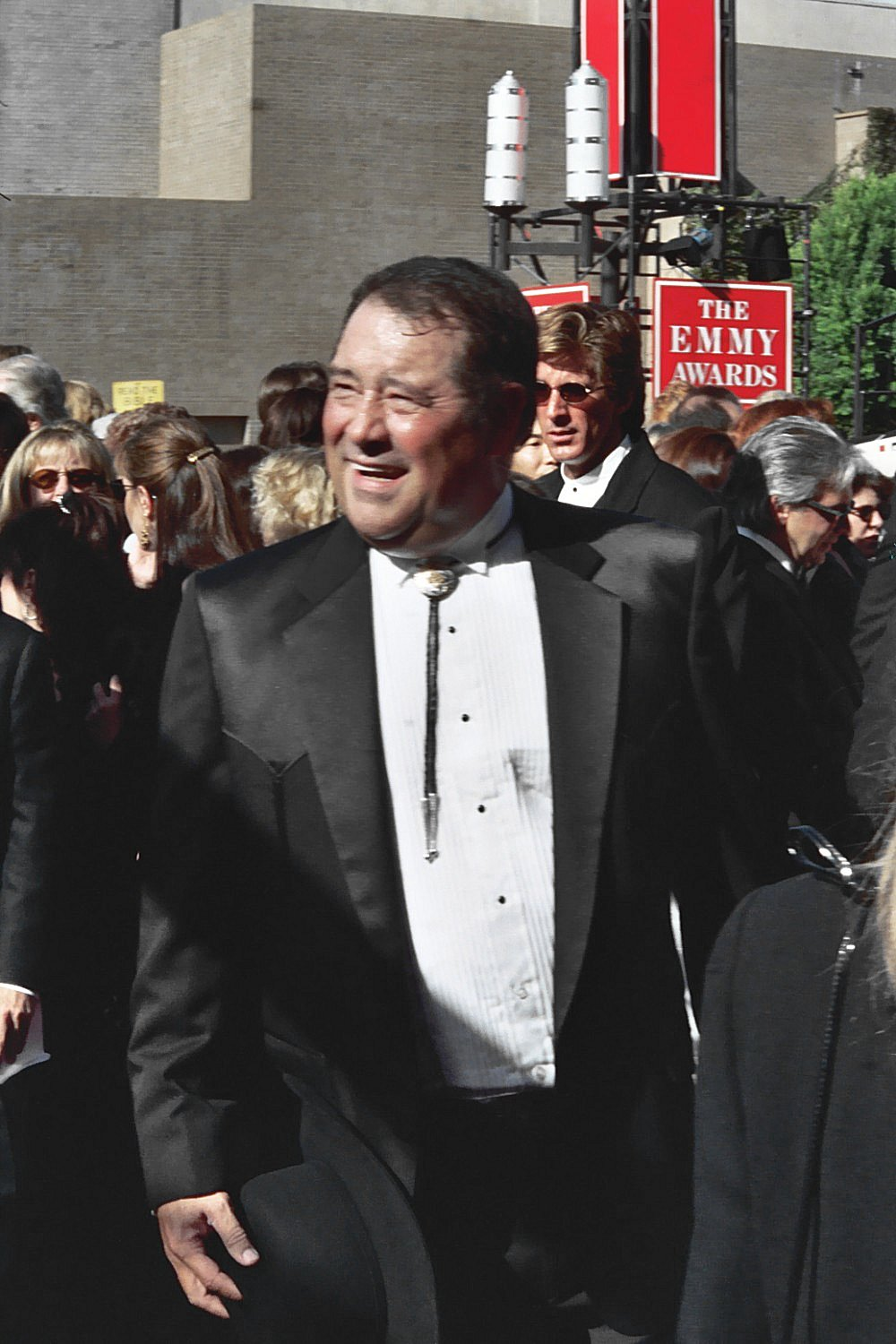 1994 Emmy Awards NOTE: Permission granted to copy, publish, broadcast or post any of my photos, but please credit "photo by Alan Light" if you can. Thanks. Scanned from the original 35MM film negative.